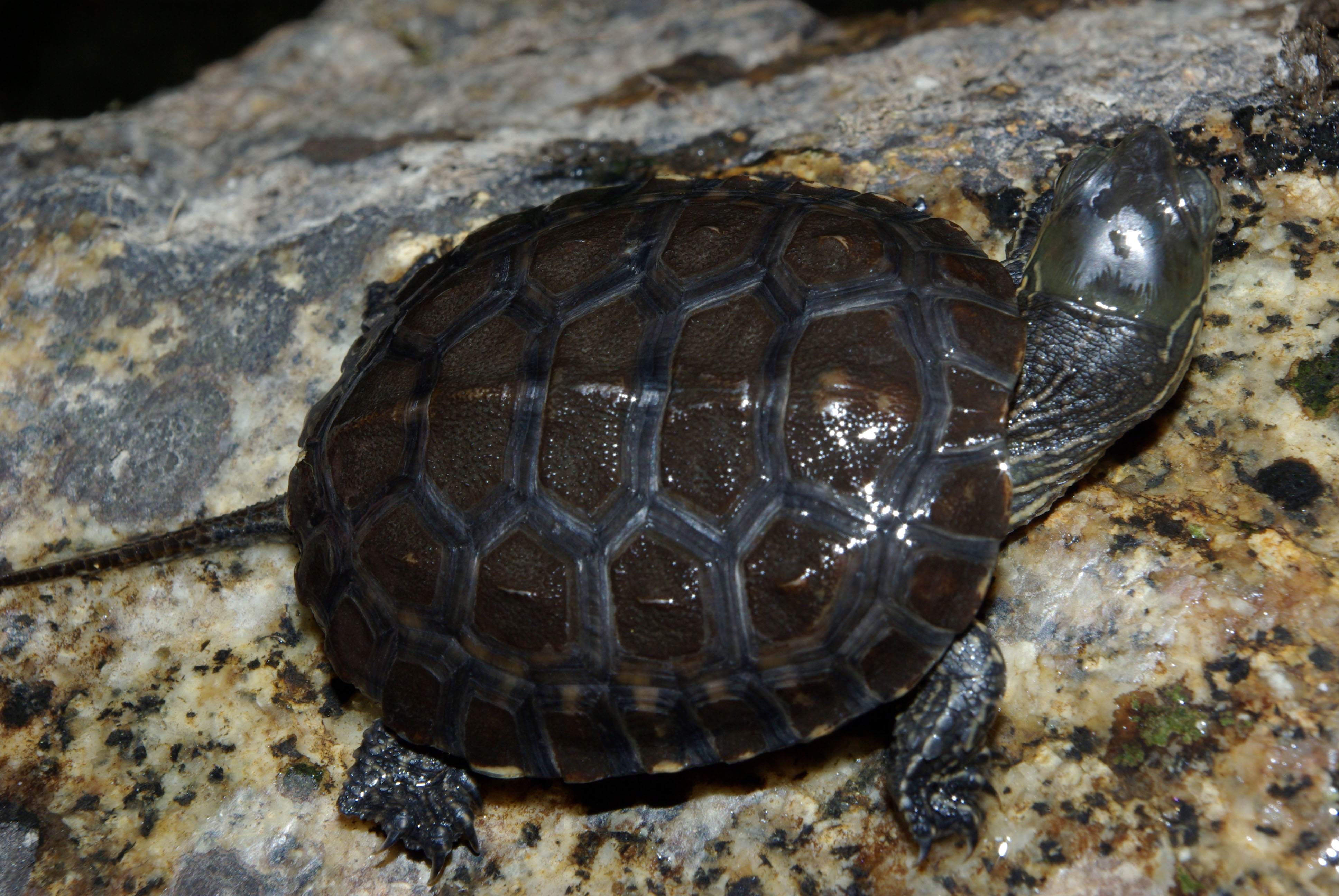 Spanish Pond Turtle (Mauremys leprosa) at river Tiétar. Near La Adrada (Ávila, Spain)